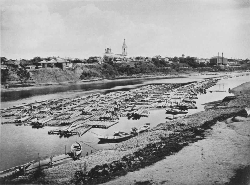 View of Rostovskaya embankment in 1891